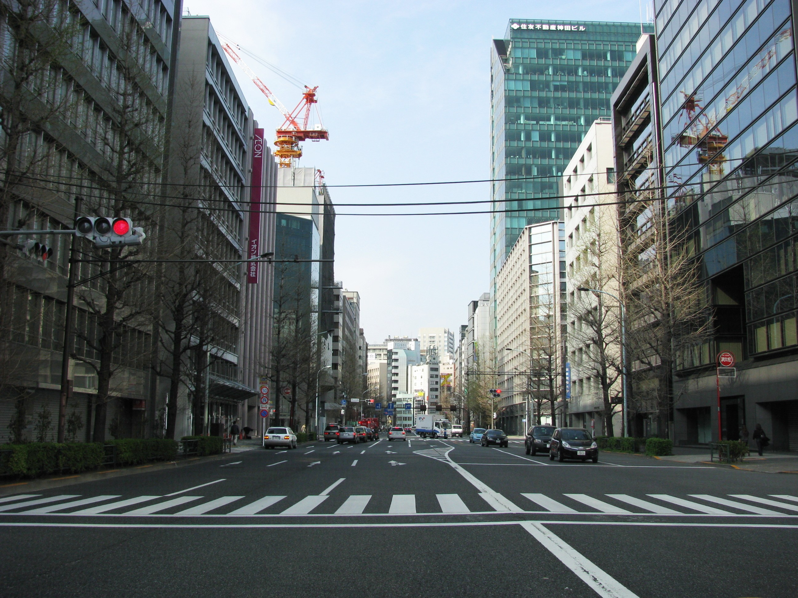 The Tokyo Prefectural Route 403. This located is Kanda-Nishikichō in Chiyoda, Tokyo, Japan.